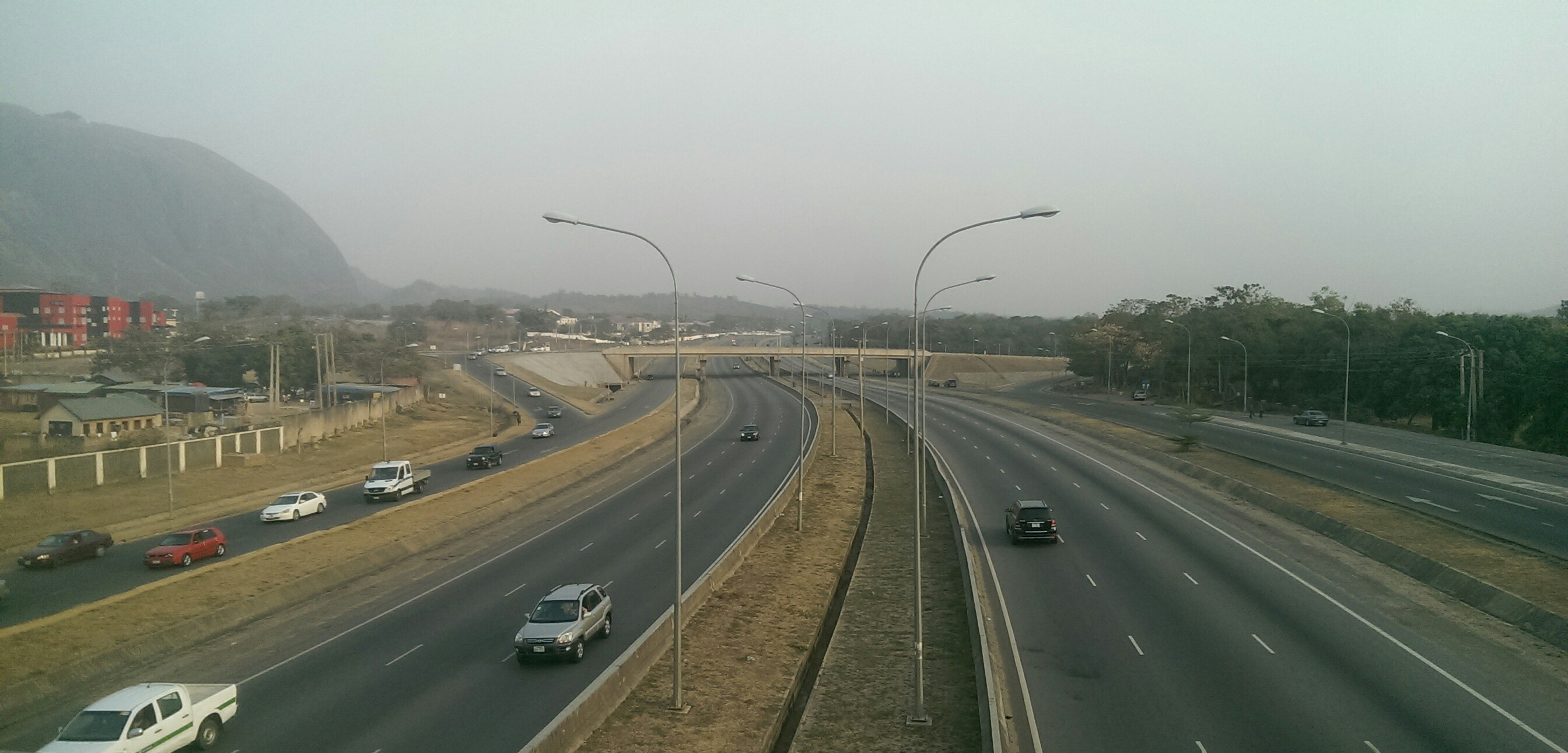 A view of a section of the Outer Northern Expressway, ONEX (Maitama Avenue intersection), with the IBB International Golf course to the right and the Nigerian Army Resource centre and Aso Rock to the left.